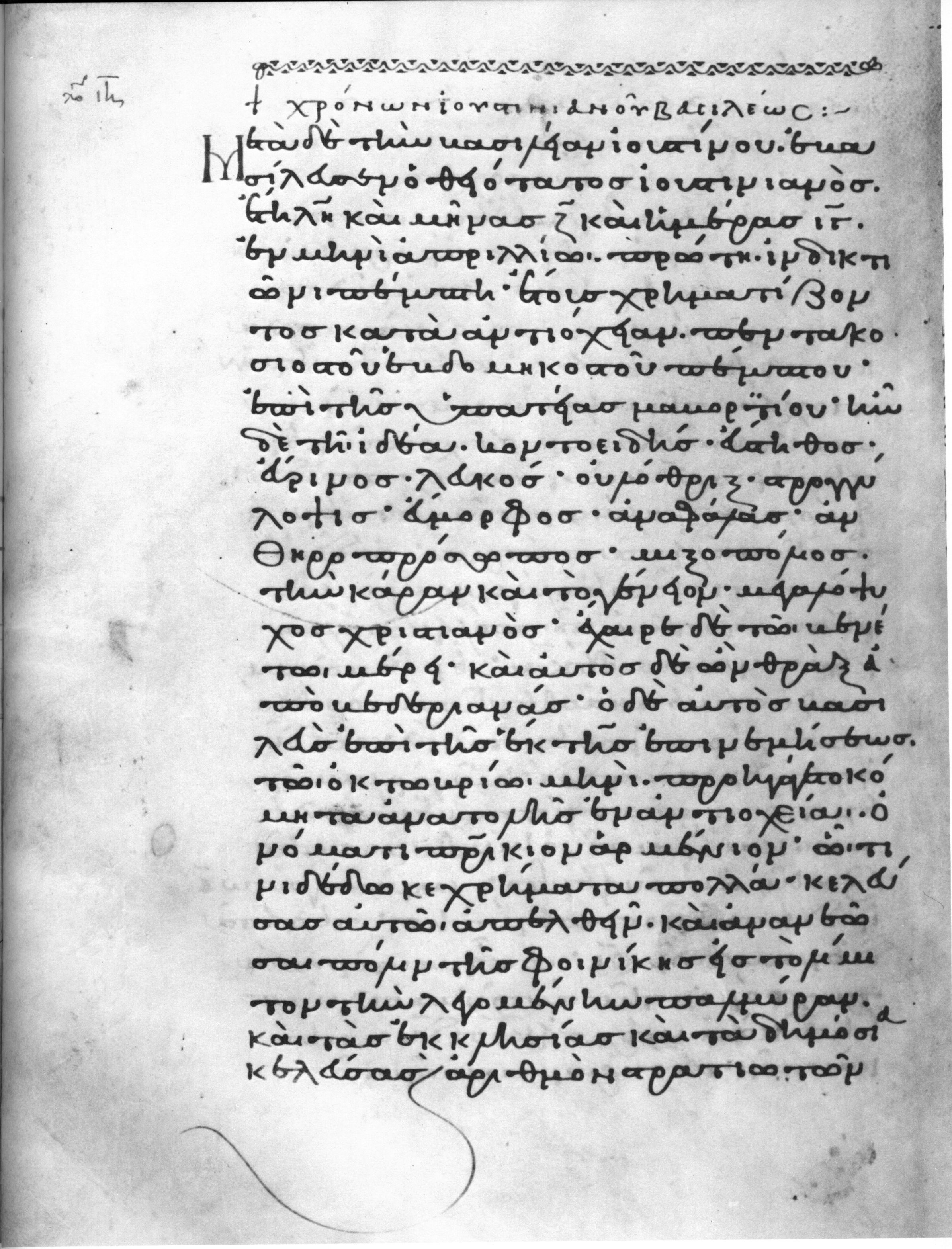 John Malalas, Chronographia (beginning of book 18) in Oxford, Bodleian Library, MS. Barocci 182, fol. 273v.